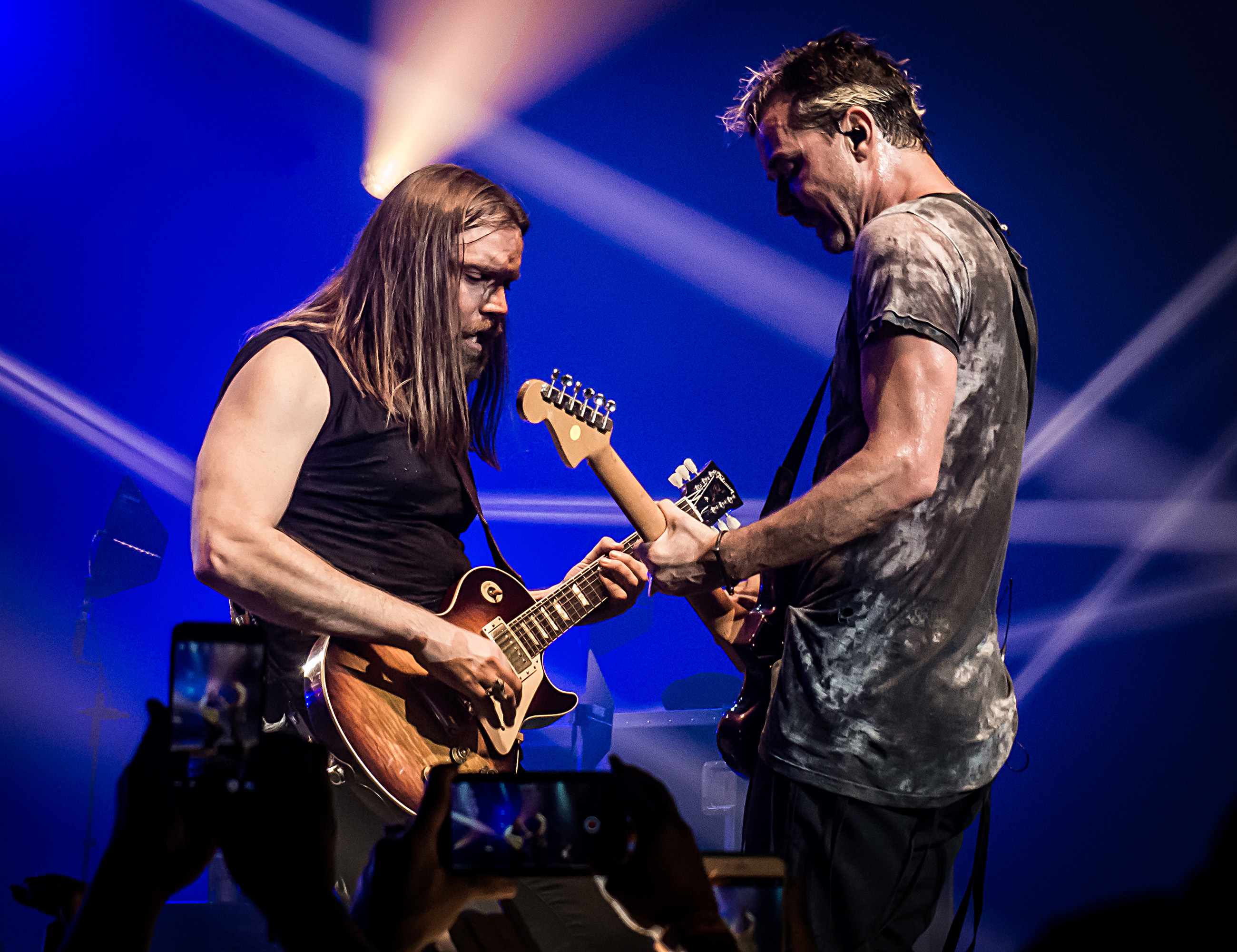 Bush performing live at The Wiltern in Los Angeles, California, on Saturday, November 5, 2016.